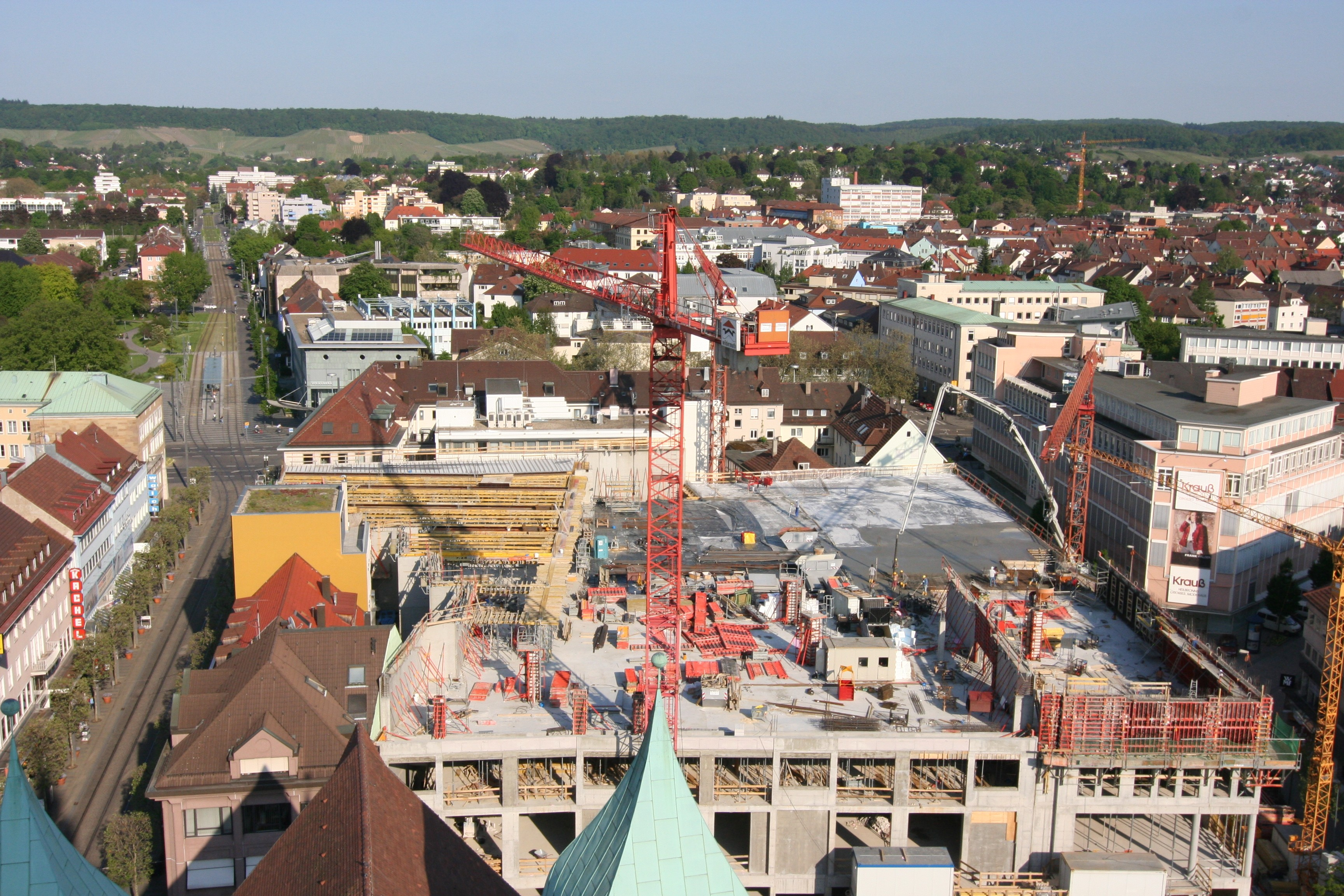 Construction of the new shopping centre at the Kiliansplatz in Heilbronn, photographed from the west tower of the Kilianskirche